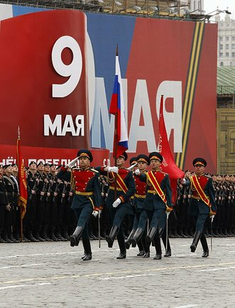 Die Militärparade zum 66-jährigen Jubiläum des Sieges in Moskau im Jahr 2011.